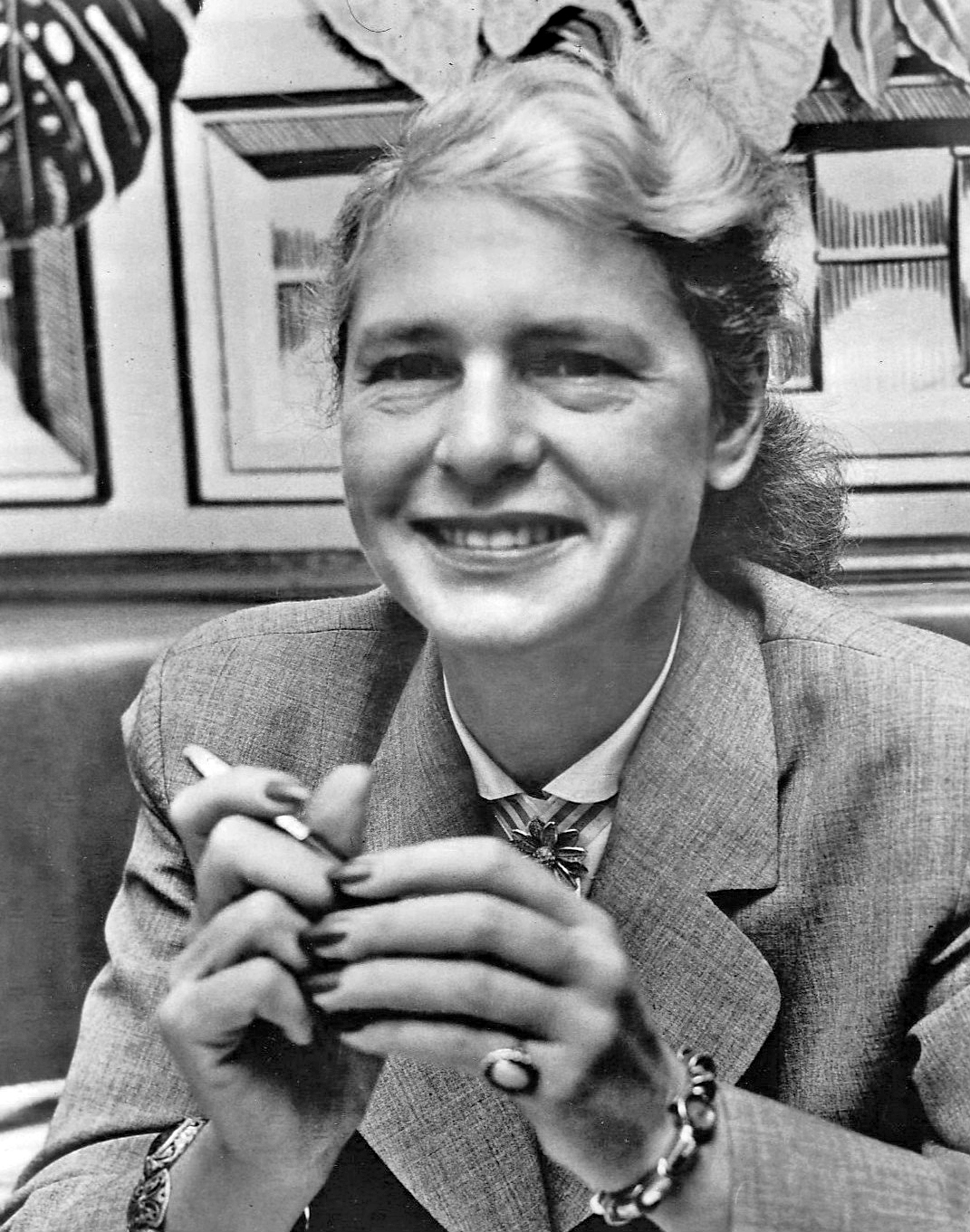 Photo of Margaret Bourke-White as a subject of the television program Person to Person.